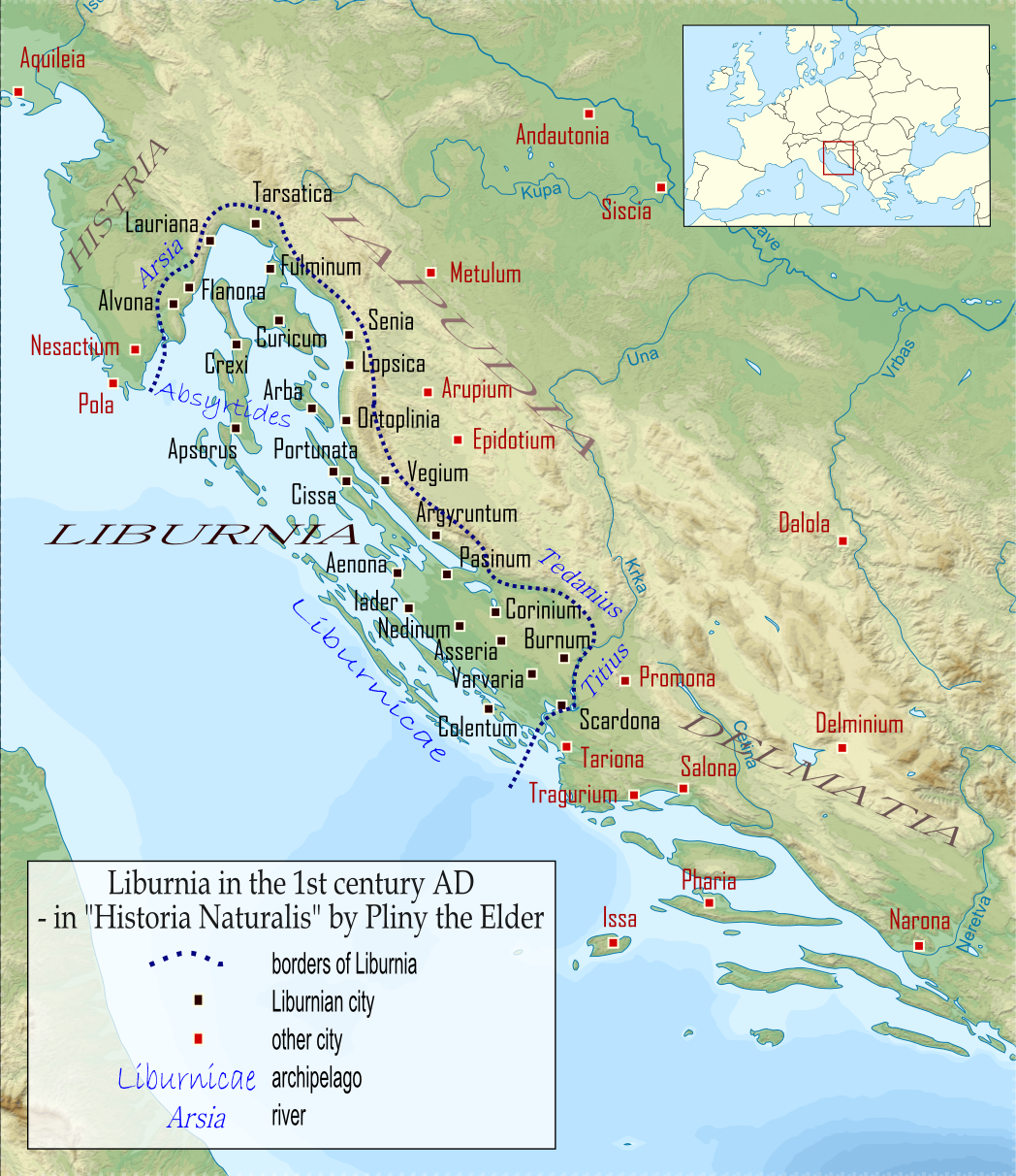 Territory of the Iron Age Liburnians in period of the Roman conquest (1st century BC - 1st century AD), based on source: S. Čače, Broj liburnskih općina i vjerodostojnost Plinija(Nat. hist. 3, 130; 139-141), Radovi Filozofskog fakulteta u Zadru, 32, Zadar 1993., pages 1-36